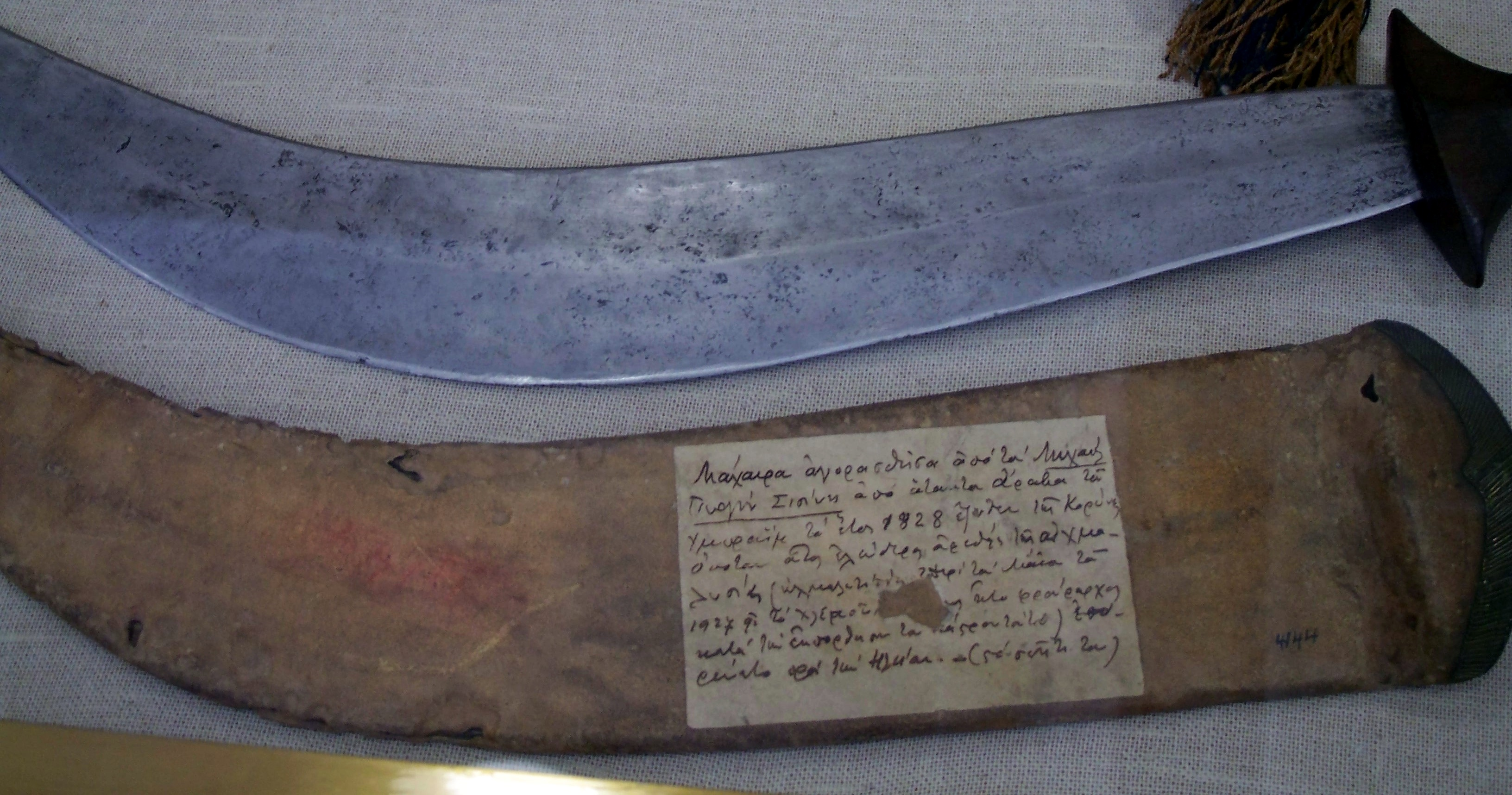 The sword (Maxaira, μαχαίρα) of greek revolutionary Georgios Sisinis (Γεώργιος Σισίνης). National Historical Museum, Athens, Greece.